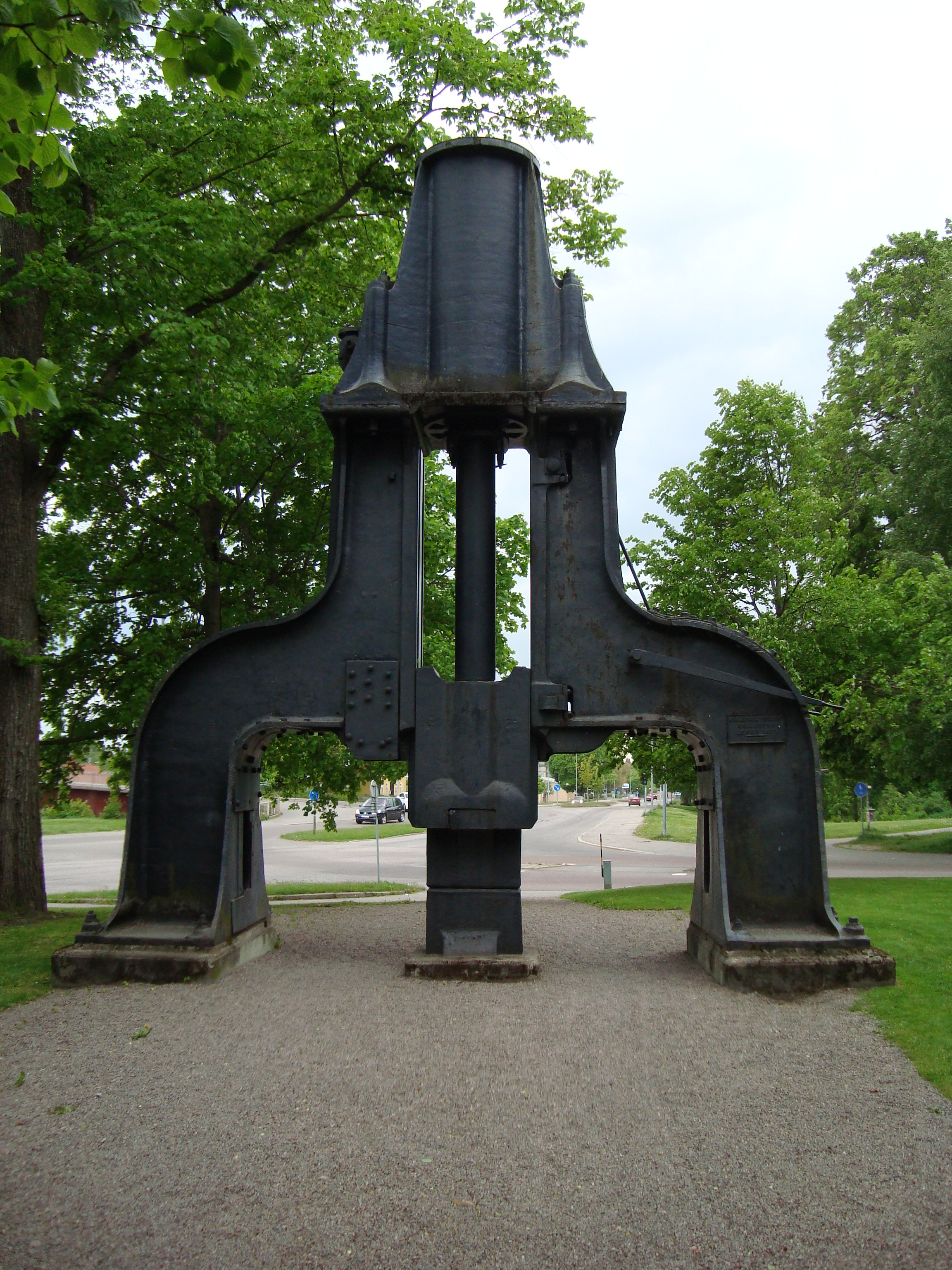 The park at Sandvik's headquarters, Sandviken, Sweden.